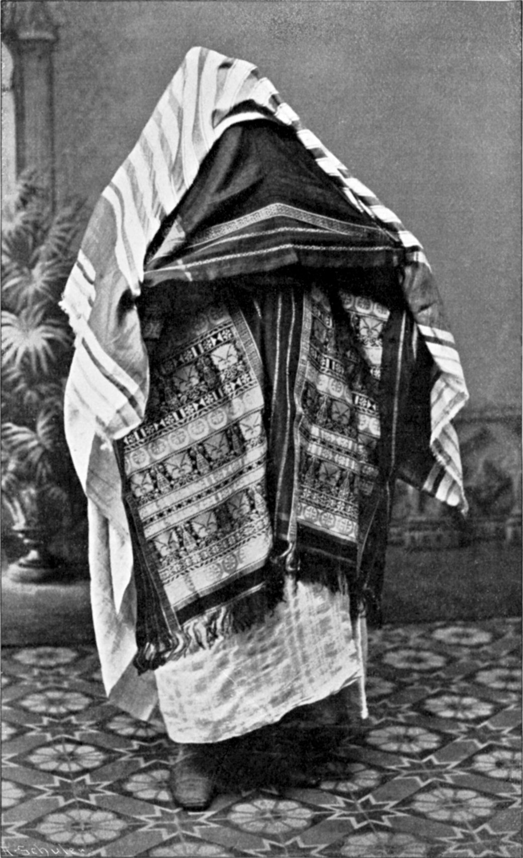 Mohammedan from Tunis in street dress .